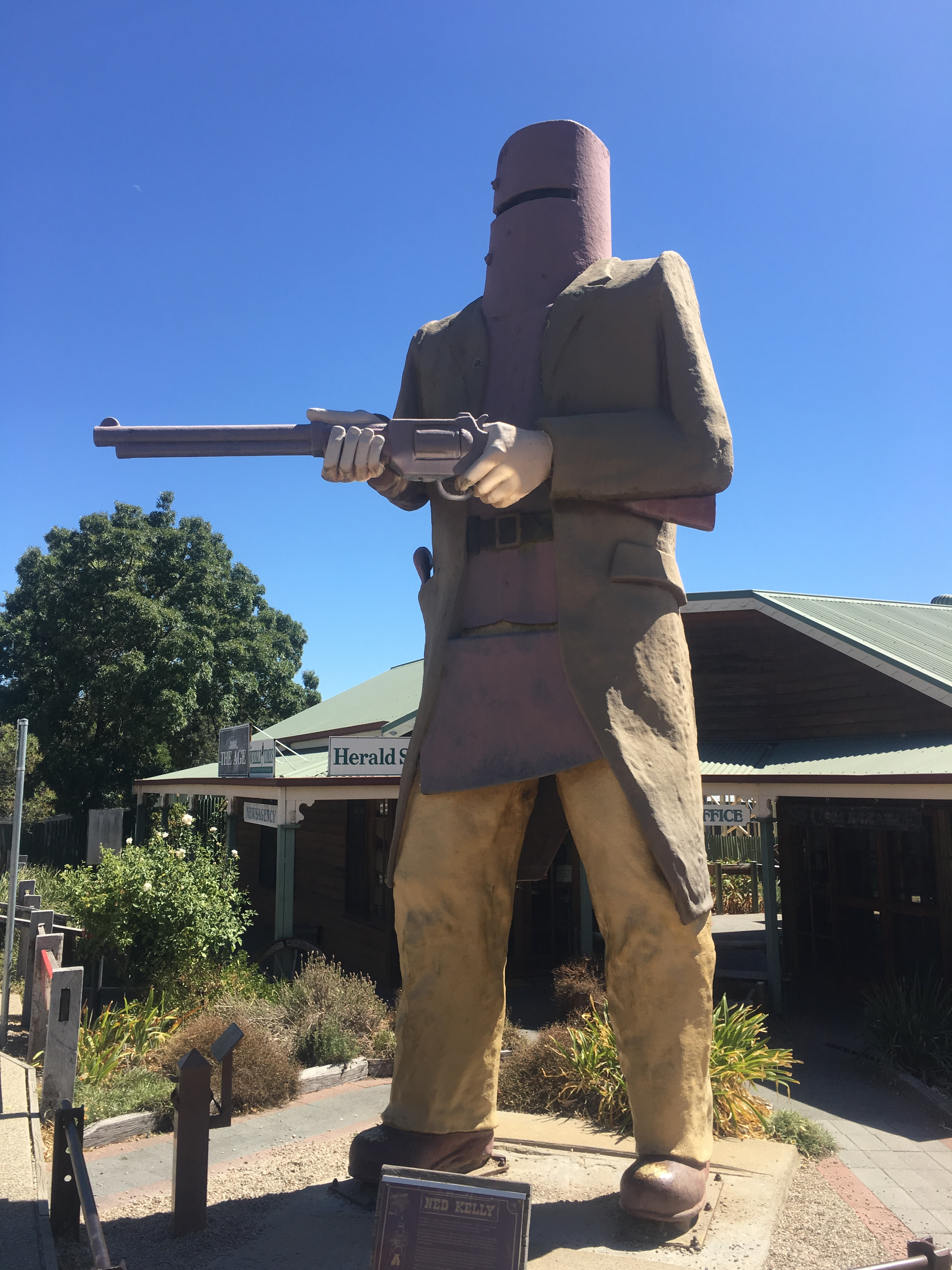 Statue of Ned Kelly on the main street of the Victorian town of Glenrowan.